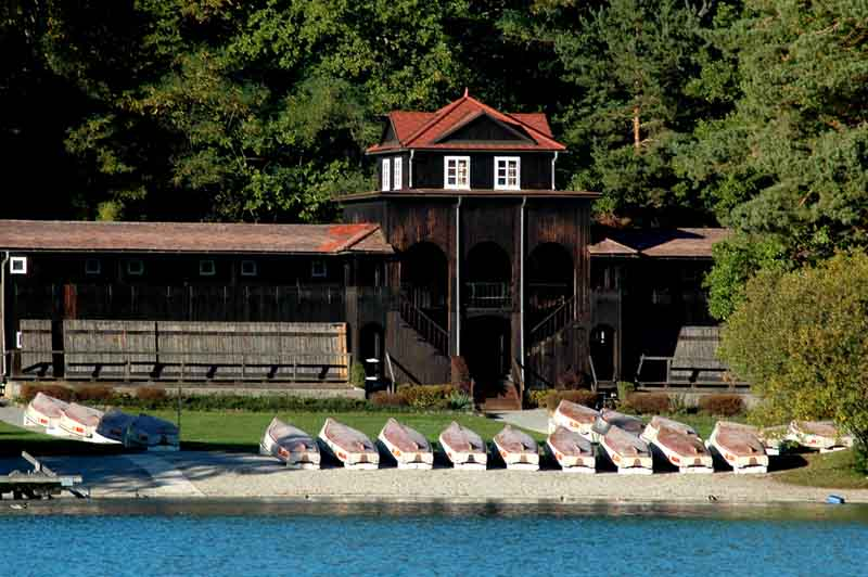 Bath house on the island of Lake Faak.Badehaus / post season